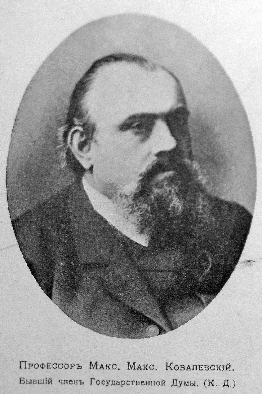 Maksim Kovalevsky (1851-1916)